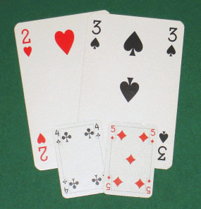 Normal size rummy cards and smaller cards especially for patience/solitaire games.